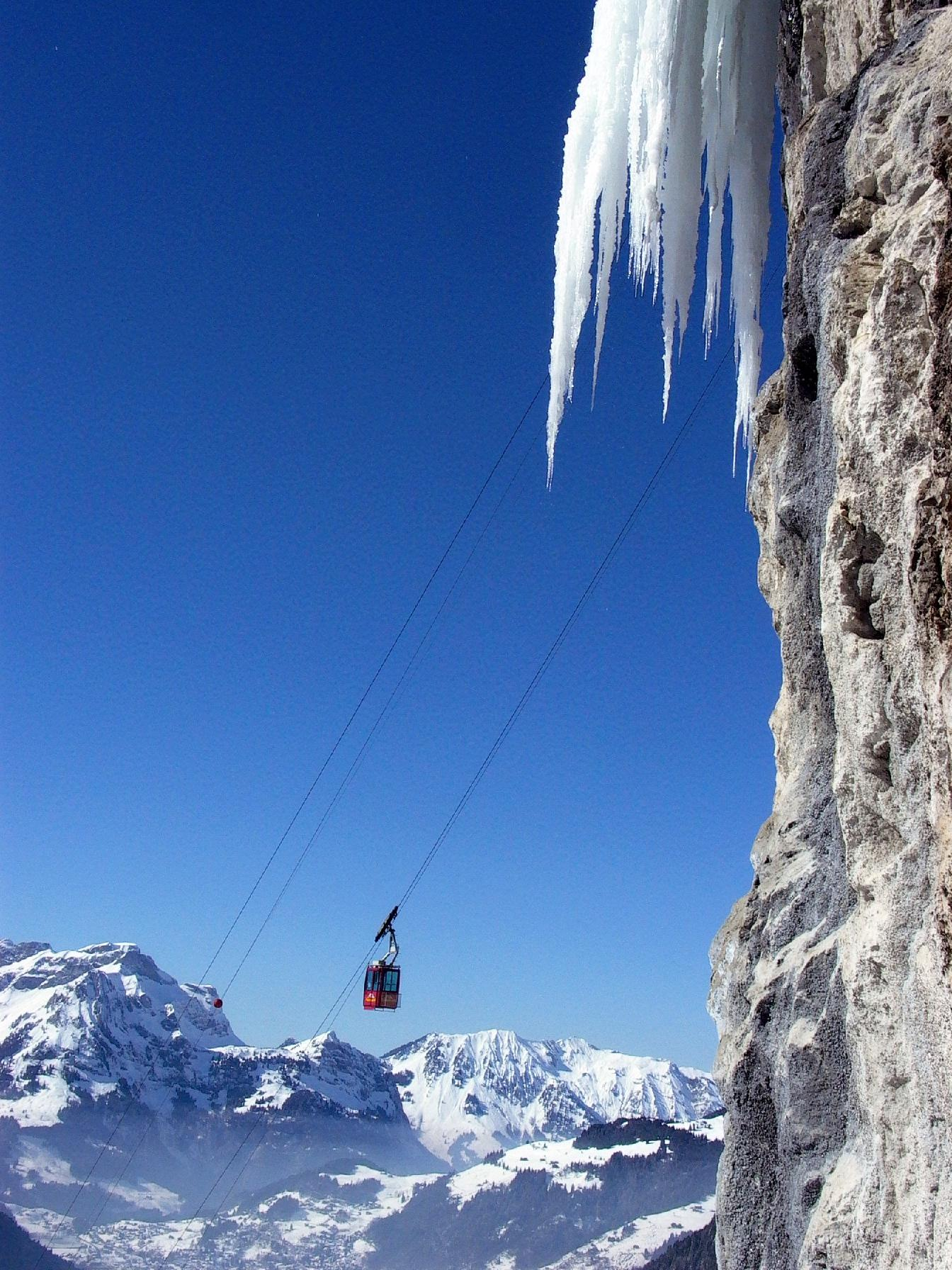 Fürenalp cable car, near Engelberg, Switzerland